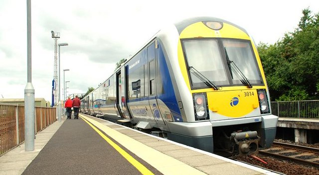 Adelaide station, Belfast The 10.45 Portadown – Bangor calling at Adelaide station. Now a standard unattended station it was once more substantial with station buildings including a booking office.